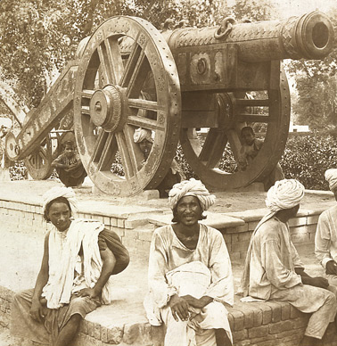 Leisure and gossip by the old Zamzamah gun that roared in the Battle of Puniput [Lahore] Leisure and gossip by the old Zamzamah gun that roared in the Battle of Puniput [Lahore] Photographer: Ricalton, James Medium: Photographic print Date: 1903 ZoomifyInteractive zoomable image (needs Flash) Print imageFull size printable image More metadata Stereoscopic photograph of figures seated in front of the Zamzama gun, at Lahore in the Punjab, Pakistan, taken by James Ricalton in c. 1903, from the The Underwood Travel Library: Stereoscopic Views of India. This large cannon stands in front of the Lahore Museum and it is this gun that the hero is seated astride at the beginning of Rudyard Kipling's 'Kim'. Ricalton wrote in his 'India Through the Stereoscope' (1907): "This huge old bronze gun...has been elevated to this conspicuous place of honor beside a great popular thoroughfare where it can be seen by all persons. Like other "big-guns" it has been honored with titular distinctions; it has been called "the hummer", "the roaring lion," "the fire-breathing dragon"...it became a proverb-"Who holds Zamzamah (the roaring lion) controls the Punjab. The Sikhs call it the Bhangianwali Top, which signifies the cannon of the Bhangi confederacy." One of a series of 100 photographs designed to be viewed through a special binocular viewer, producing a 3D effect. The series was sold together with a book of descriptions and a map with precise locations to enable the 'traveller' to imagine that he was touring around India. Stereoscopic cameras, those with two lenses and the ability to take two photographs at the same time, were introduced in the mid 19th century and revolutionised photography. They cut down exposure time and thus allowed for some movement in the image without blurring as subjects were not required to sit for long periods to produce sharp results.